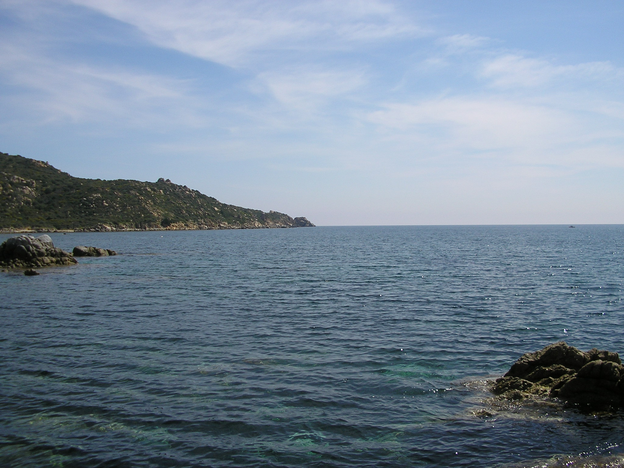 Capo Ferrato, in the south east of Sardinia, Italy